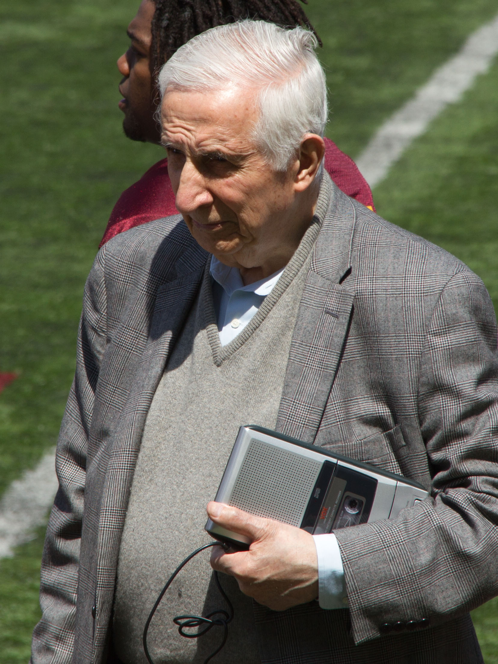 Sid Hartman, covering the Minnesota Golden Gophers football team's 2013 Spring Game in TCF Bank Stadium in Minneapolis, Minnesota, USA.